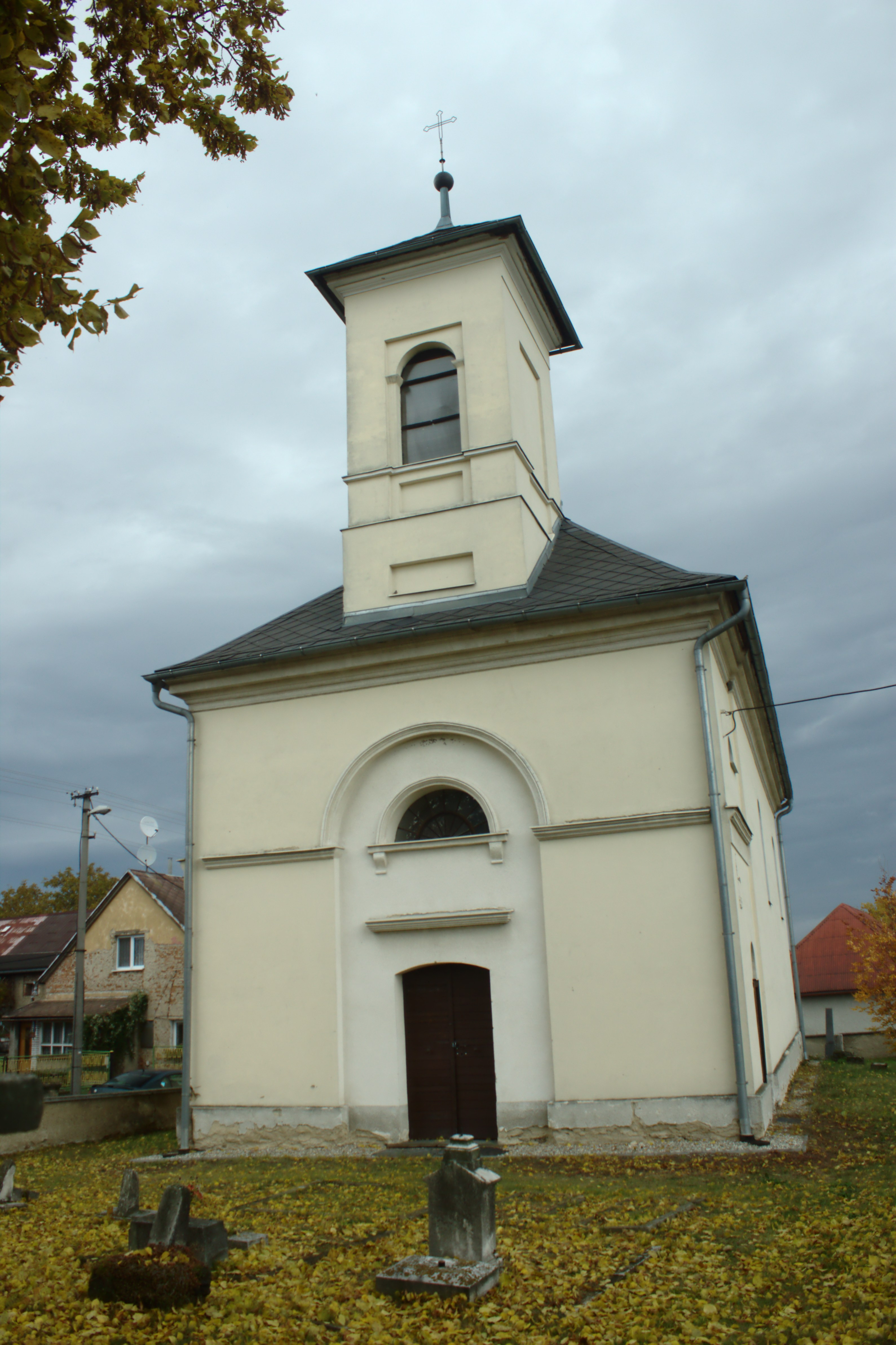 St. Anthony of Padua church in Dubnice, Moravian-Silesian Region, CZ